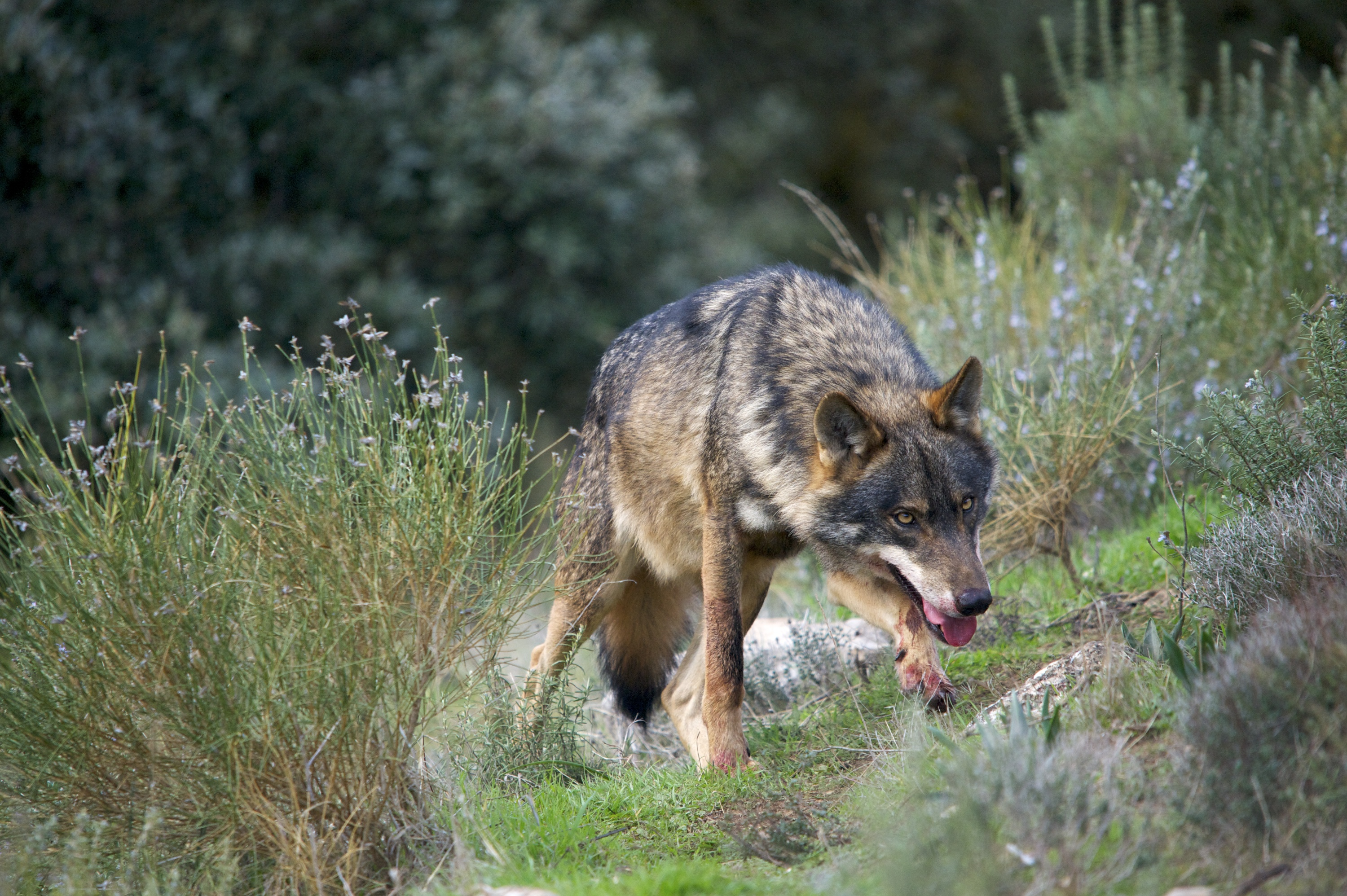 Iberian Wolf (Canis lupus signatus) alpha male in perfect "big bad wolf" pose - head down, eyes fixed, mouth open, forelegs stained with blood.